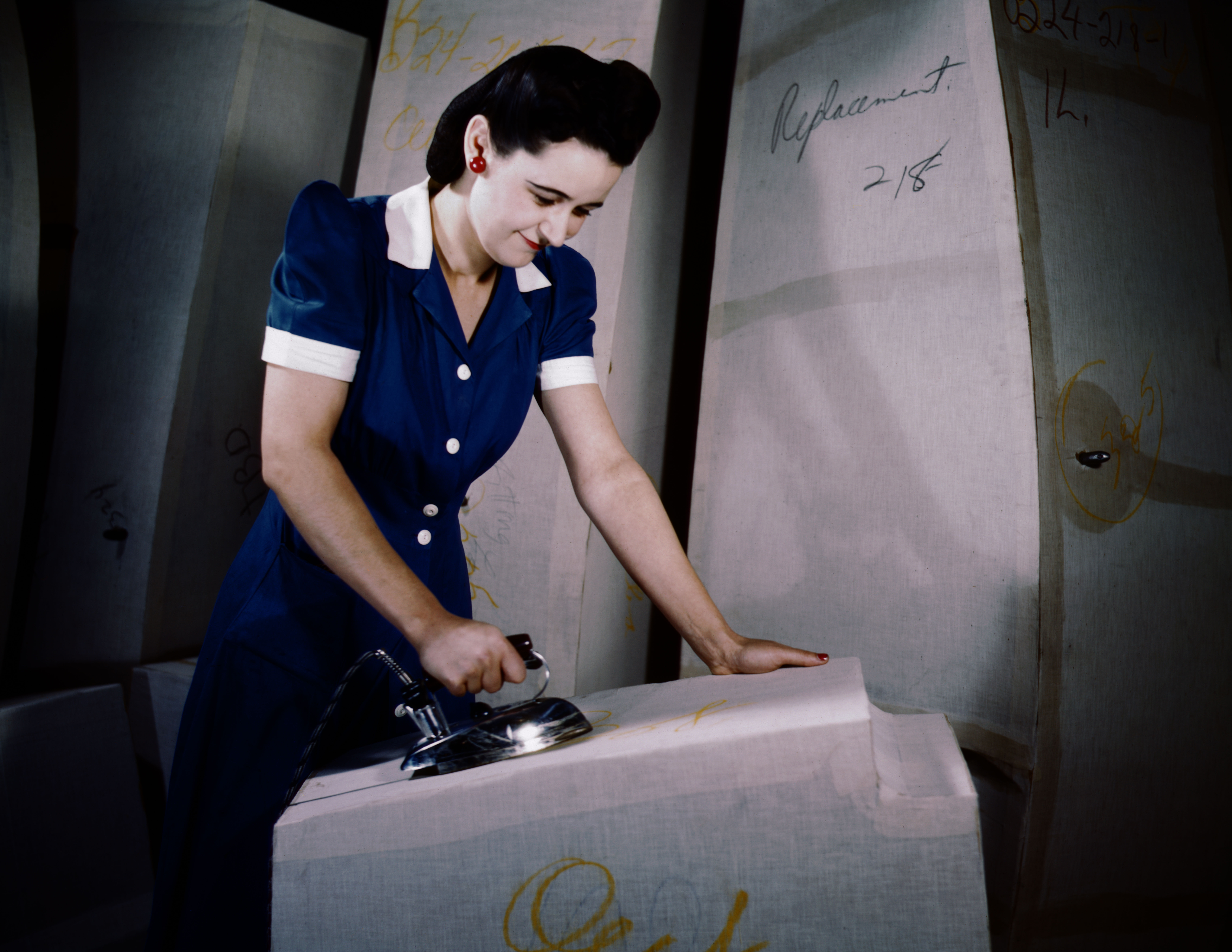 Manufacture of self-sealing gas tanks, Goodyear Tire and Rubber Co., Akron, Ohio.